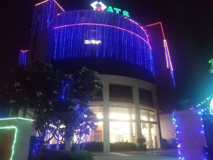 ATS illuminated office